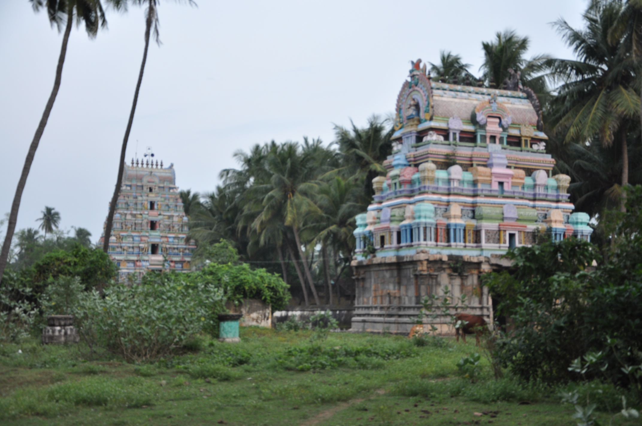 Thirupazhanam Temple - One of Saptha Sthanams, near Thirukandiyur.